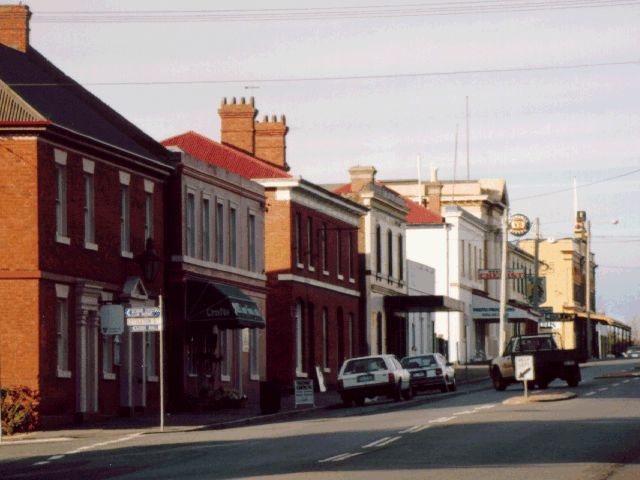 View looking south on Wellington Street near the centre of Longford, Tasmania, Australia.